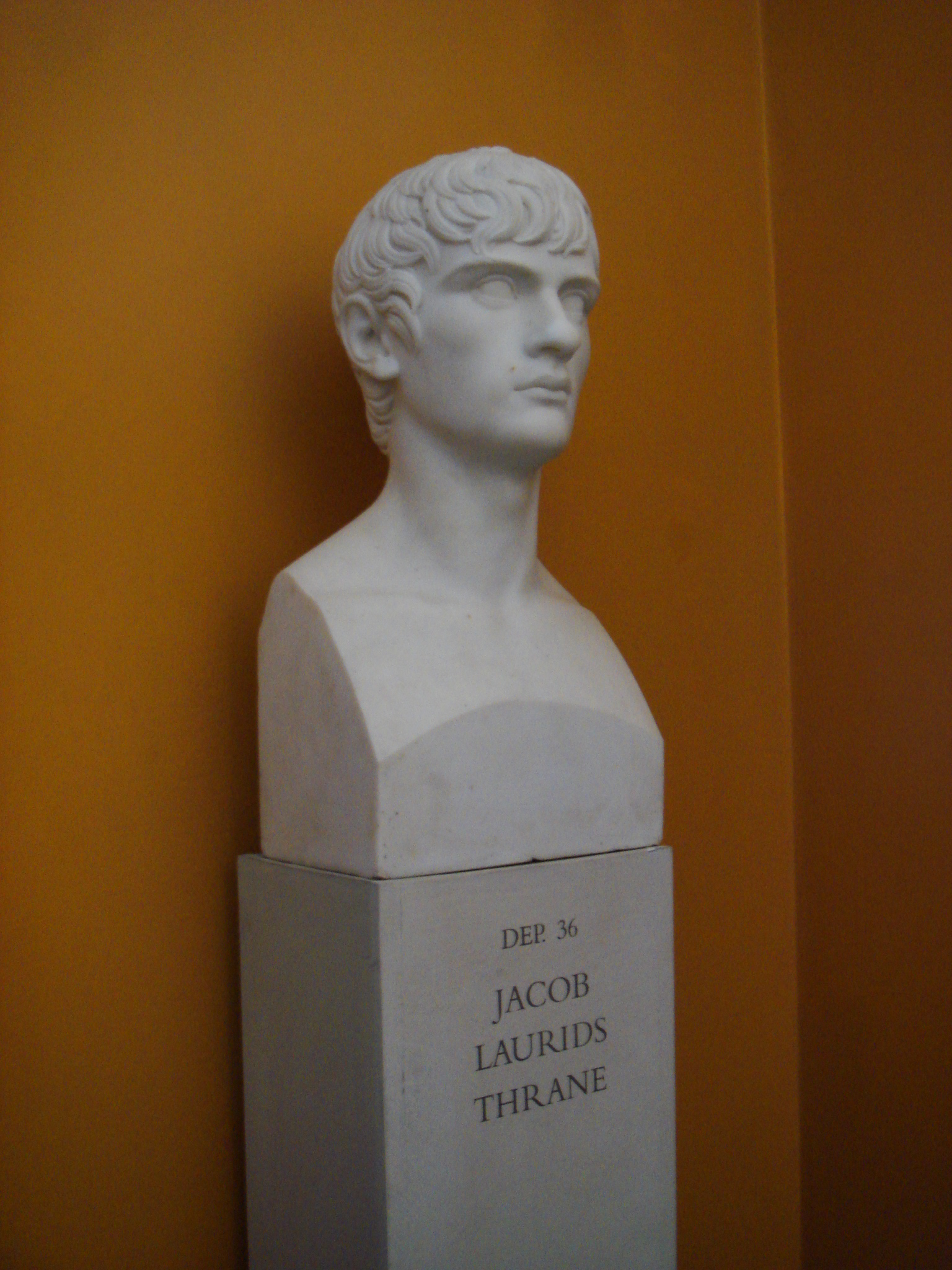 Jacob Laurids Thrane of Bertel Thorvaldsen. Museo Thorvaldsen, Copenhagen. Picture by Stefano Bolognini.